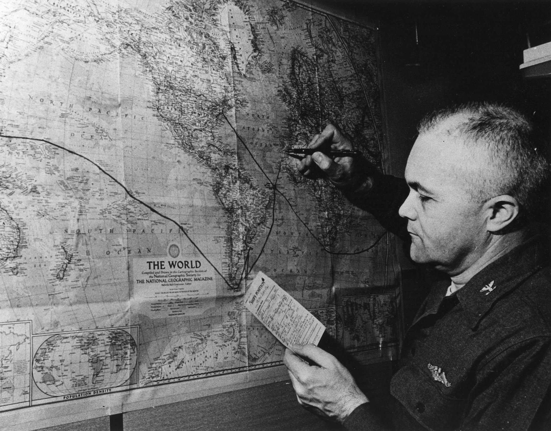 Captain Edward L. Beach, USN, and the Triton Circumavigation (1960)